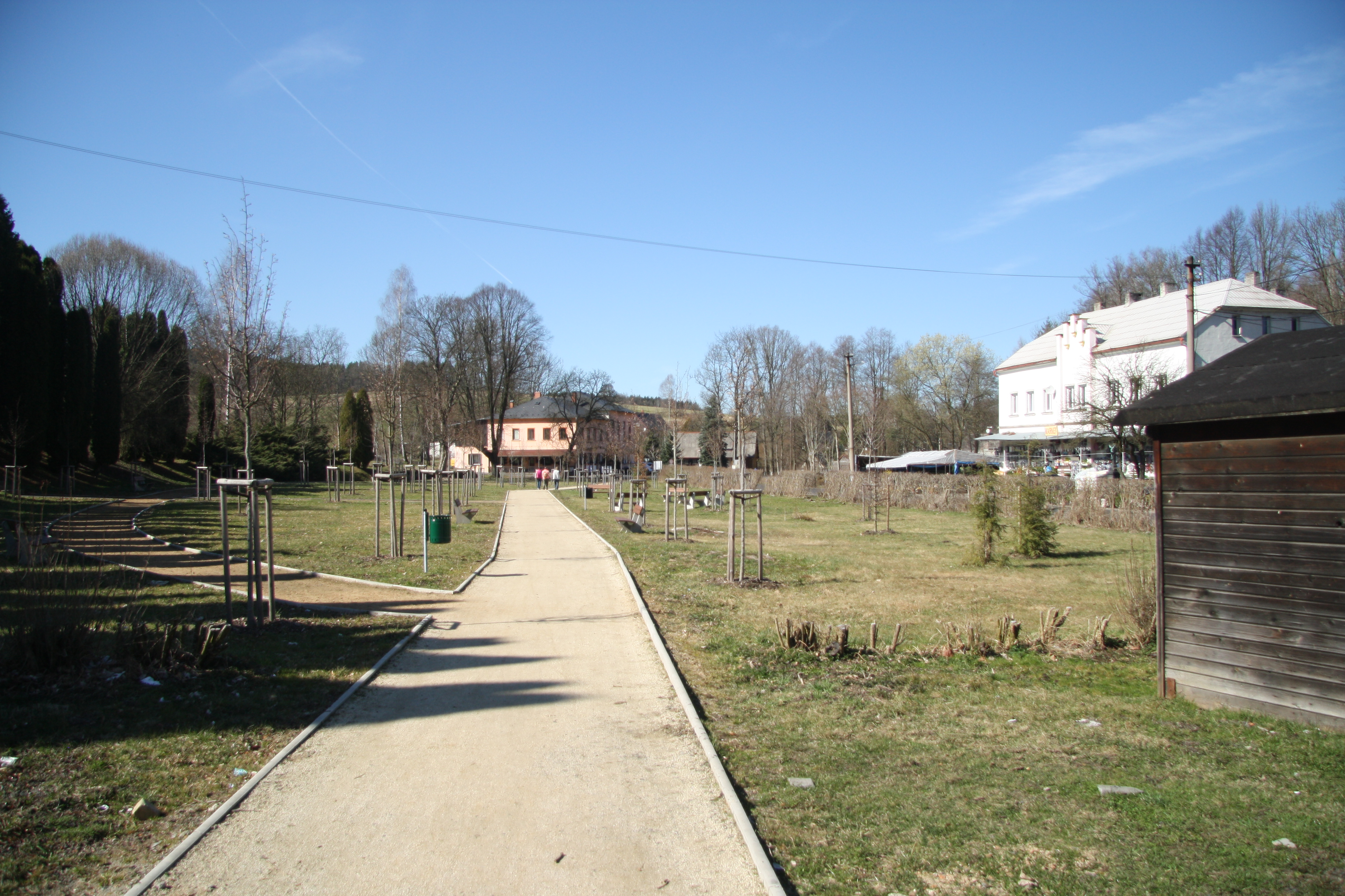 Center of Rožany, Šluknov, Děčín District.